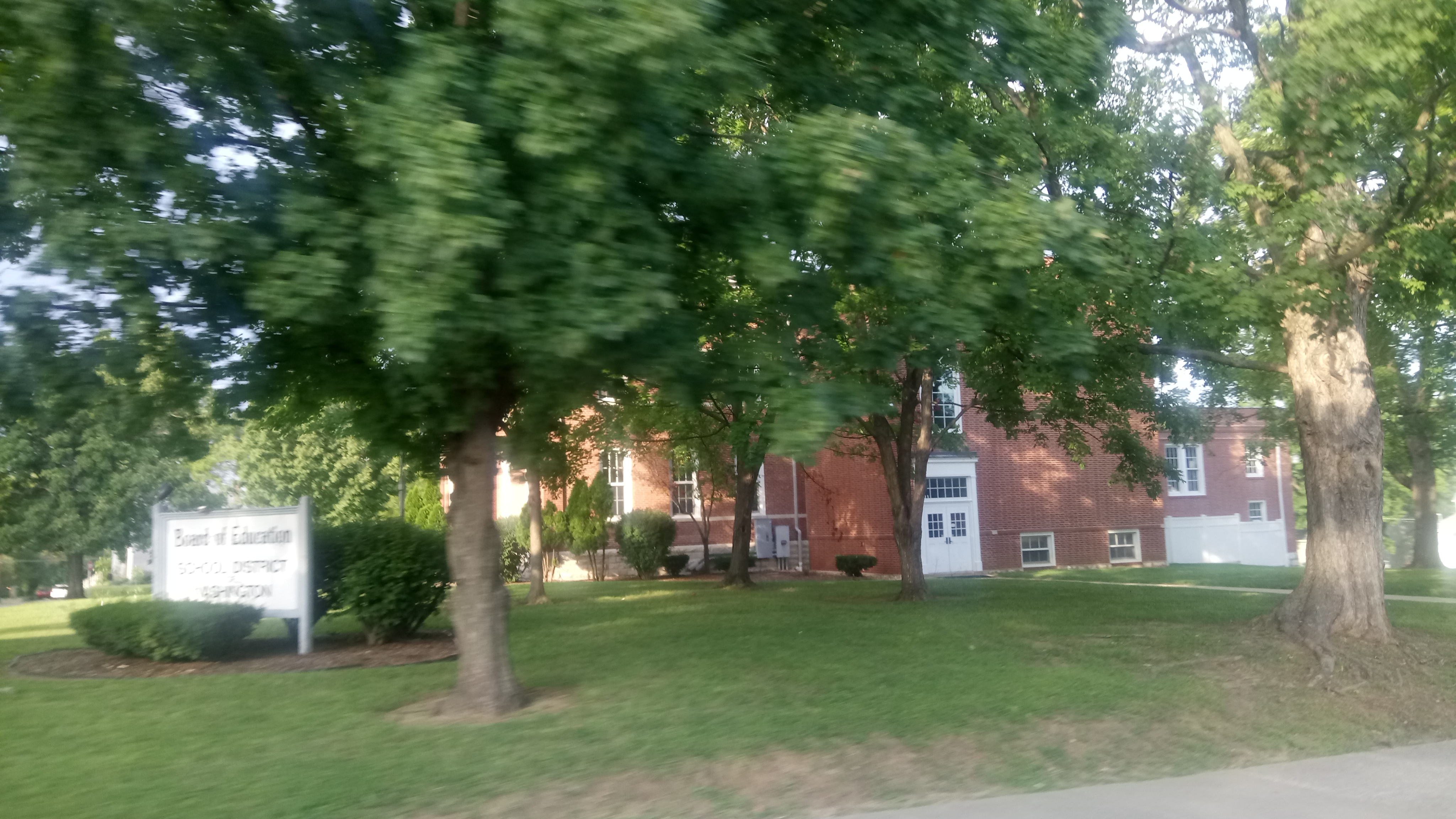 Washington MO Board of Education